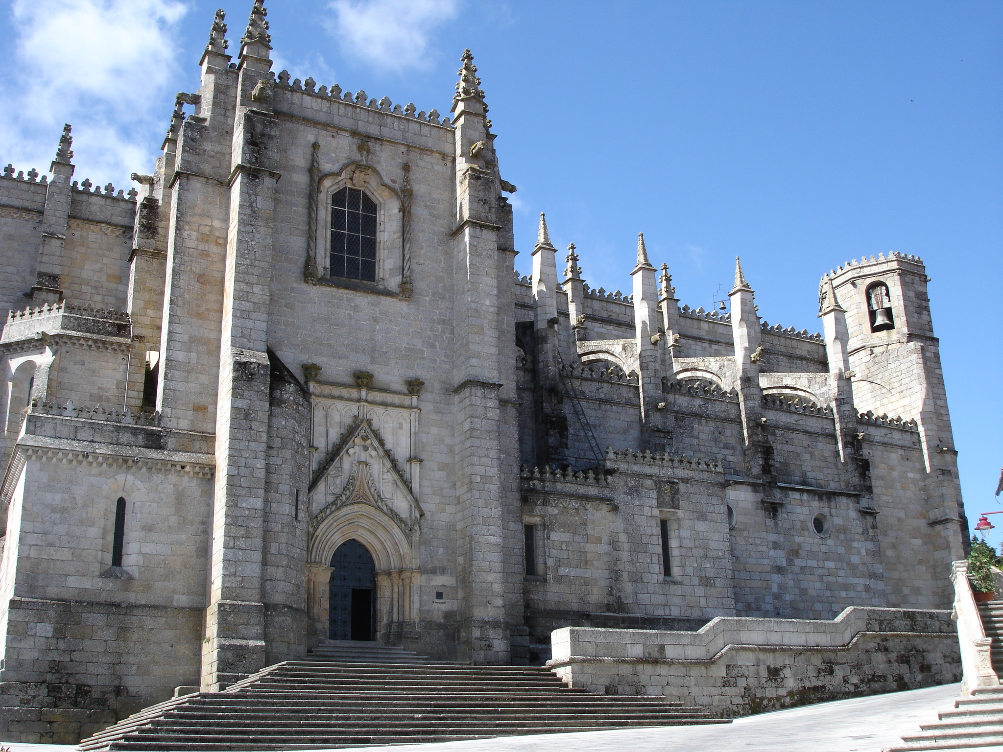 Guarda Cathedral. Photo by Cláudio Franco /